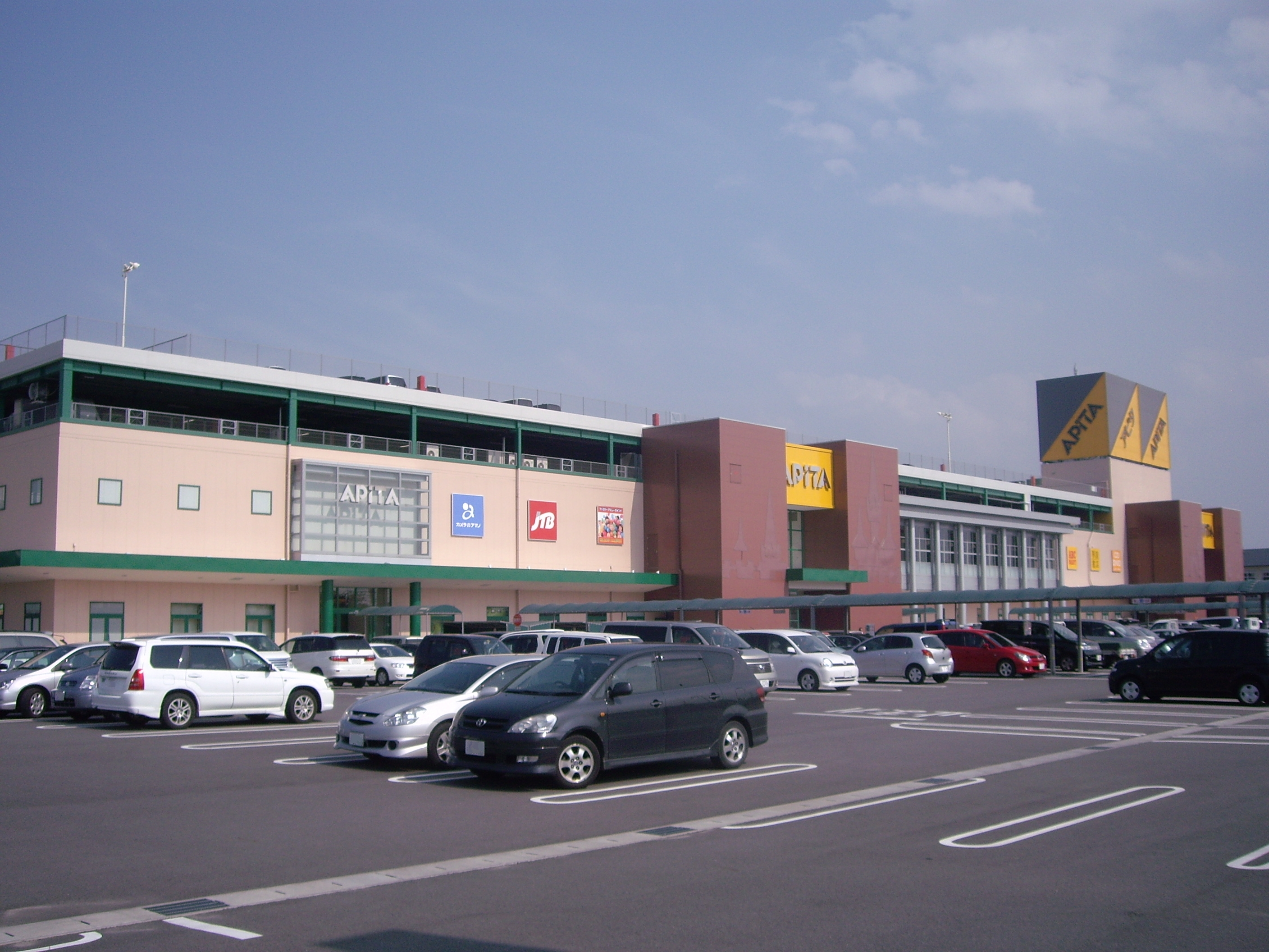 APITA Anjo-Minami, in Anjo